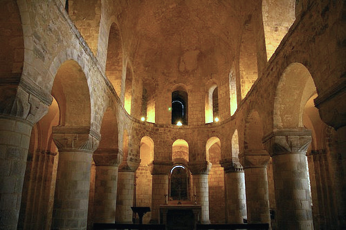 View of the Norman chapel inside the White Tower